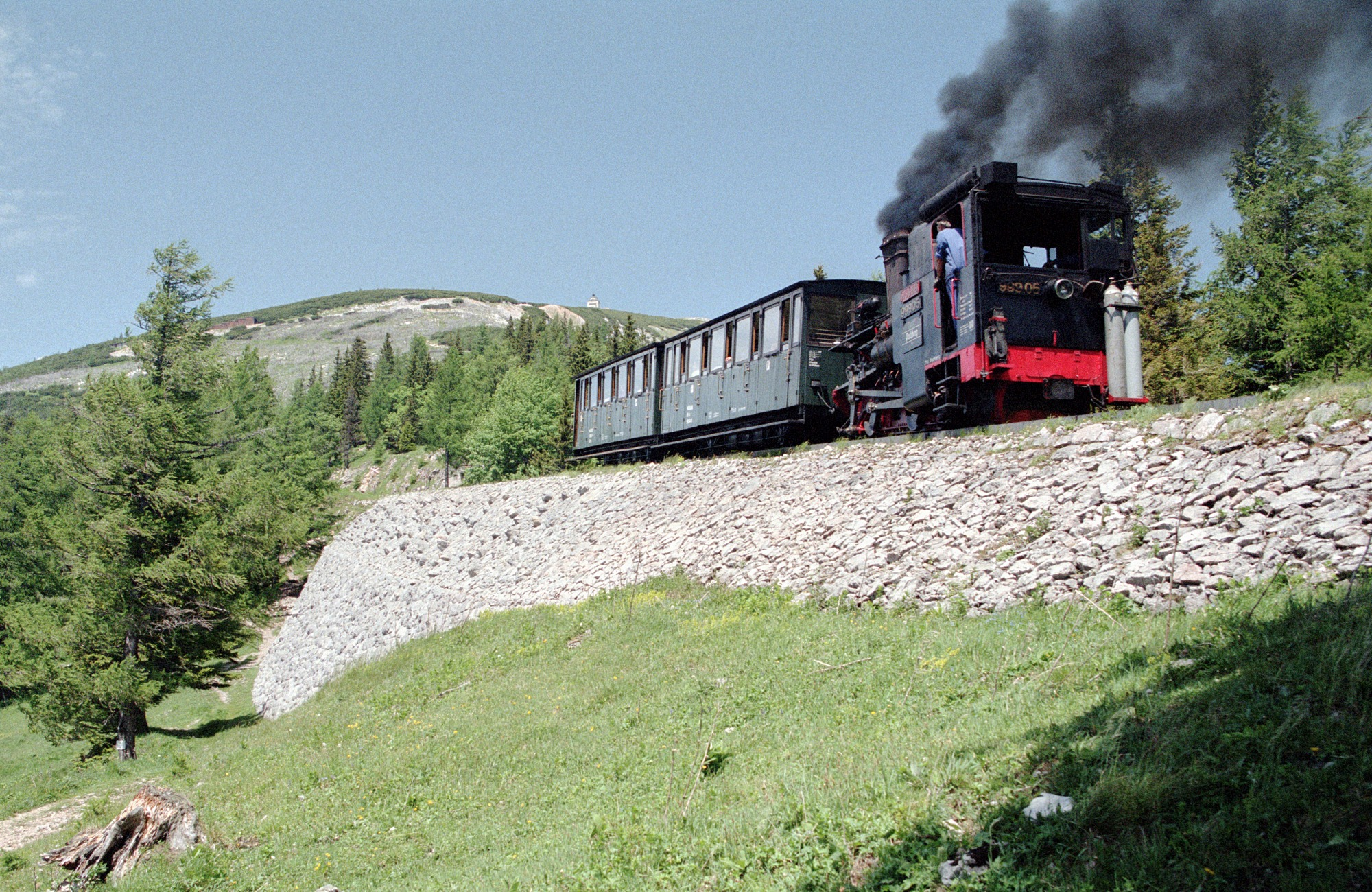 Schneebergbahn 999.05 pushing up a train on the steepest section of the line, close after Baumgartner station.